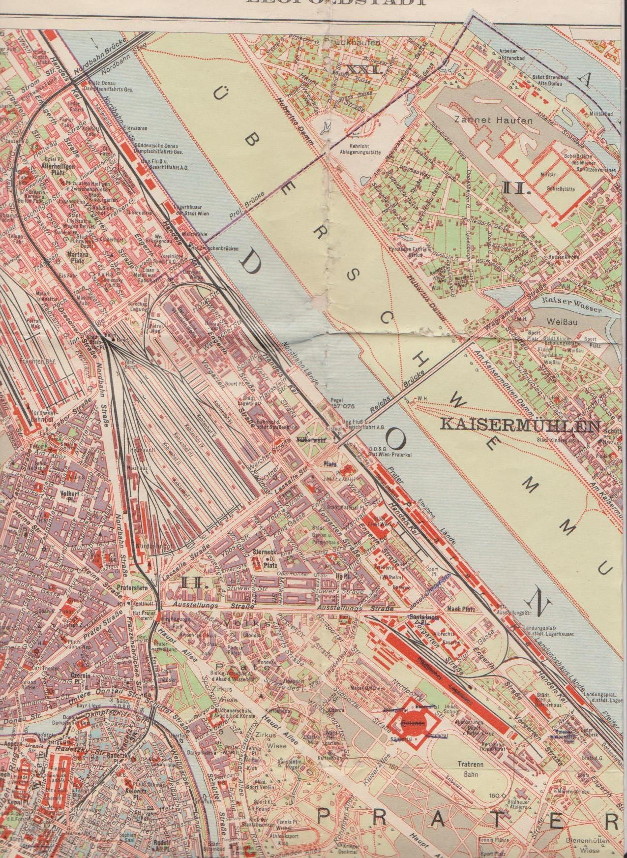 Part of a city map of the 2nd district of Vienna, showing the Praterstern traffic junction, Reichsbrücke (bridge over the Danube river) and adjacent parts of Prater amusement park.